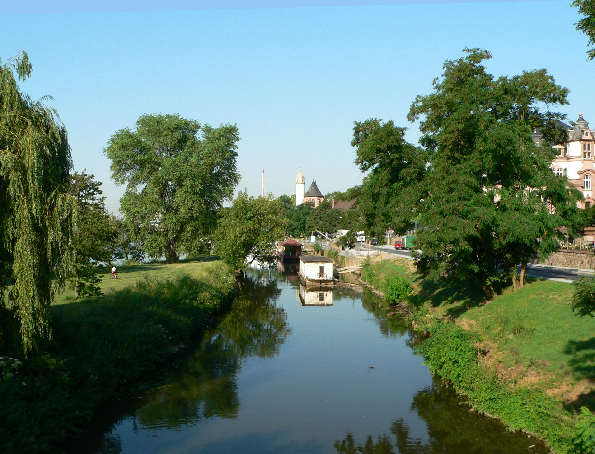 Estuary of the Nidda River („Wörthspitze“) with houseboats